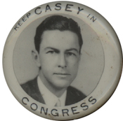 former Congressman Robert R. Casey of Texas.